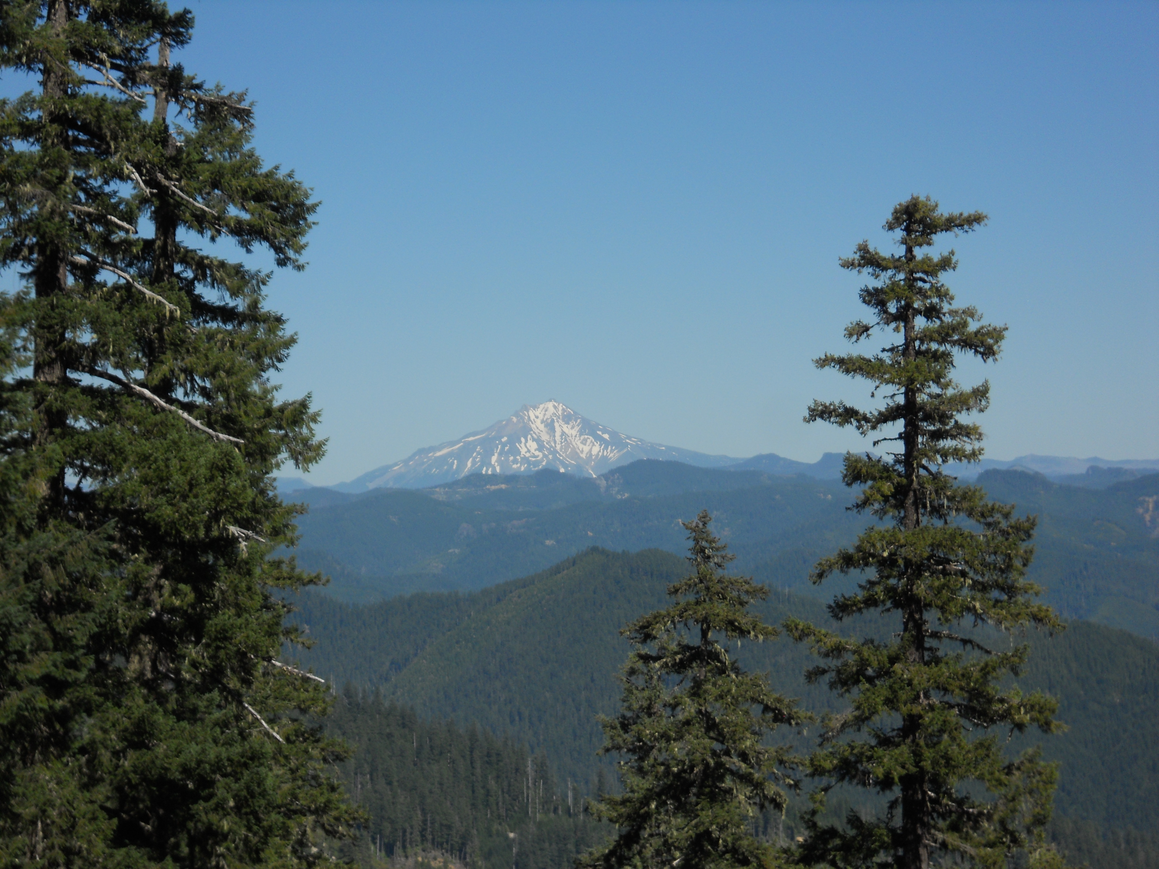 Mount Jefferson in Oregon as seen from the west, above the Crabtree Creek valley, which is north and northwest of Green Peter Reservoir